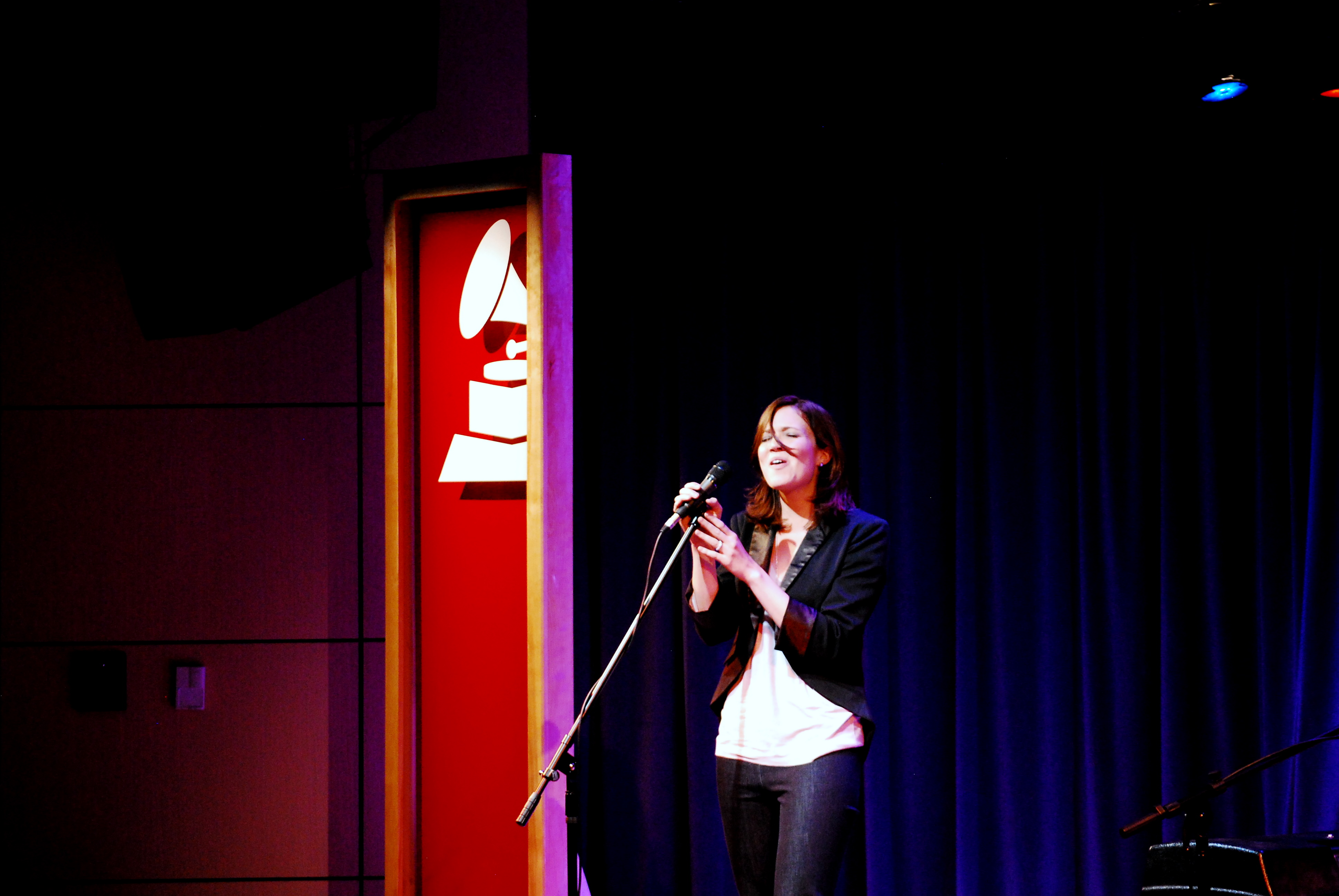 Mandy Moore at the GRAMMY Museum June 09